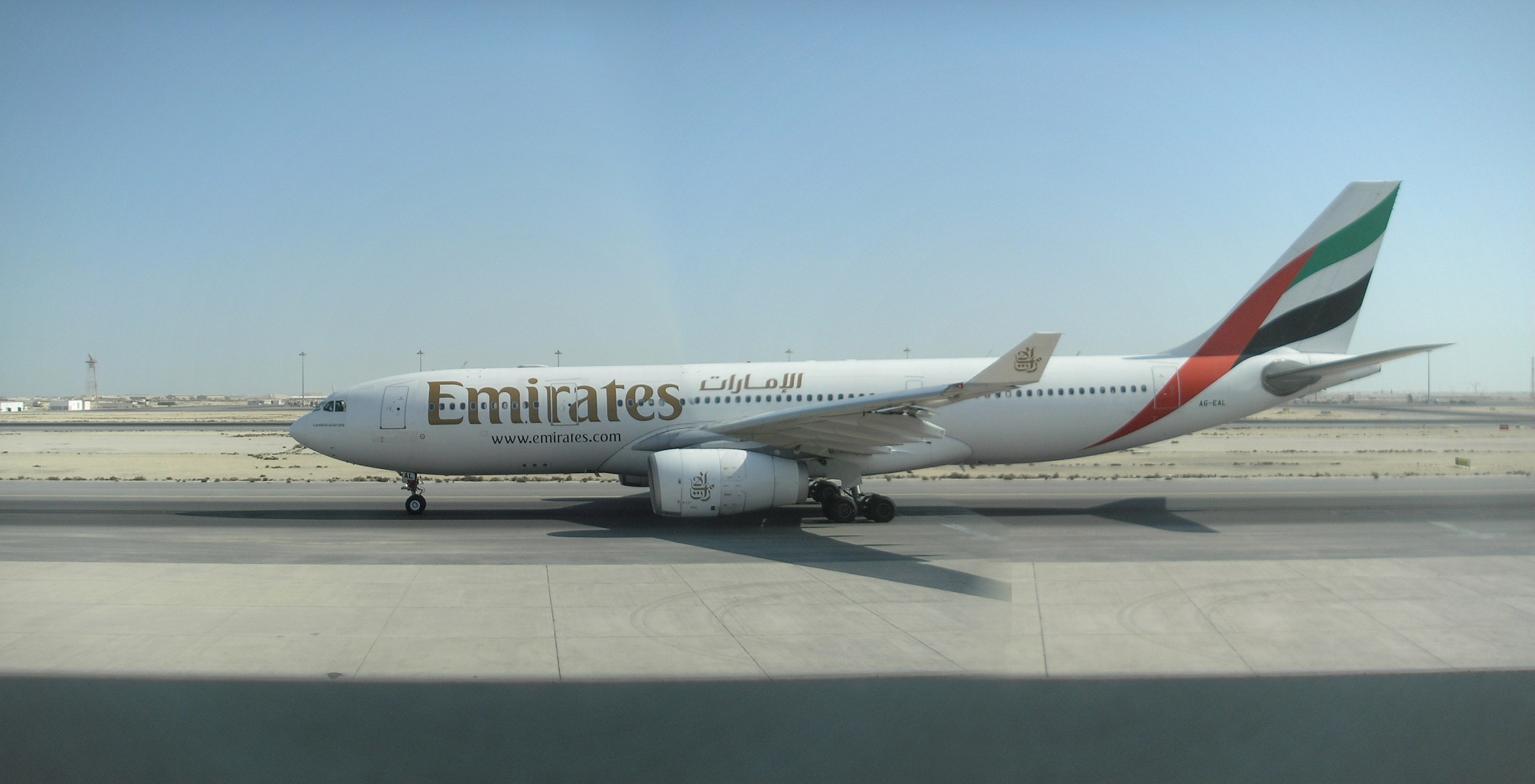 Emirates at Doha International Airport.